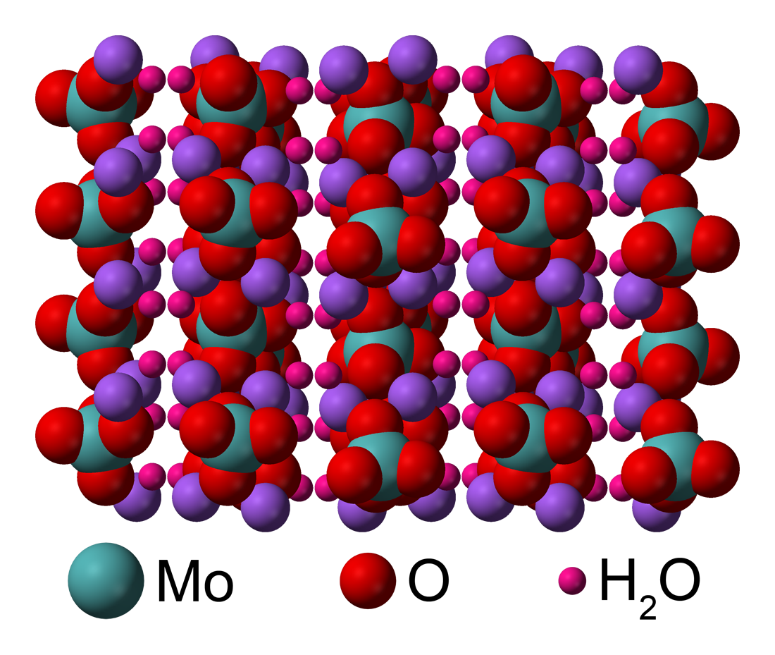 Space-filling model of part of the crystal structure of sodium molybdate dihydrate, Na2MoO4·2H2O. Structural data from Kazuko Matsumoto, Akiko Kobayashi and Yukiyoshi Sasaki (1975). "The Crystal Structure of Sodium Molybdate Dihydrate, Na2MoO4·2H2O". Bulletin of the Chemical Society of Japan 48 (3): 1009-1013.